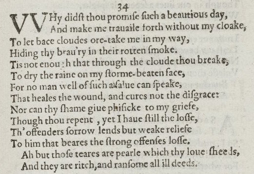 Sonnet 34 in the 1609 Quarto of Shakespeare's sonnets